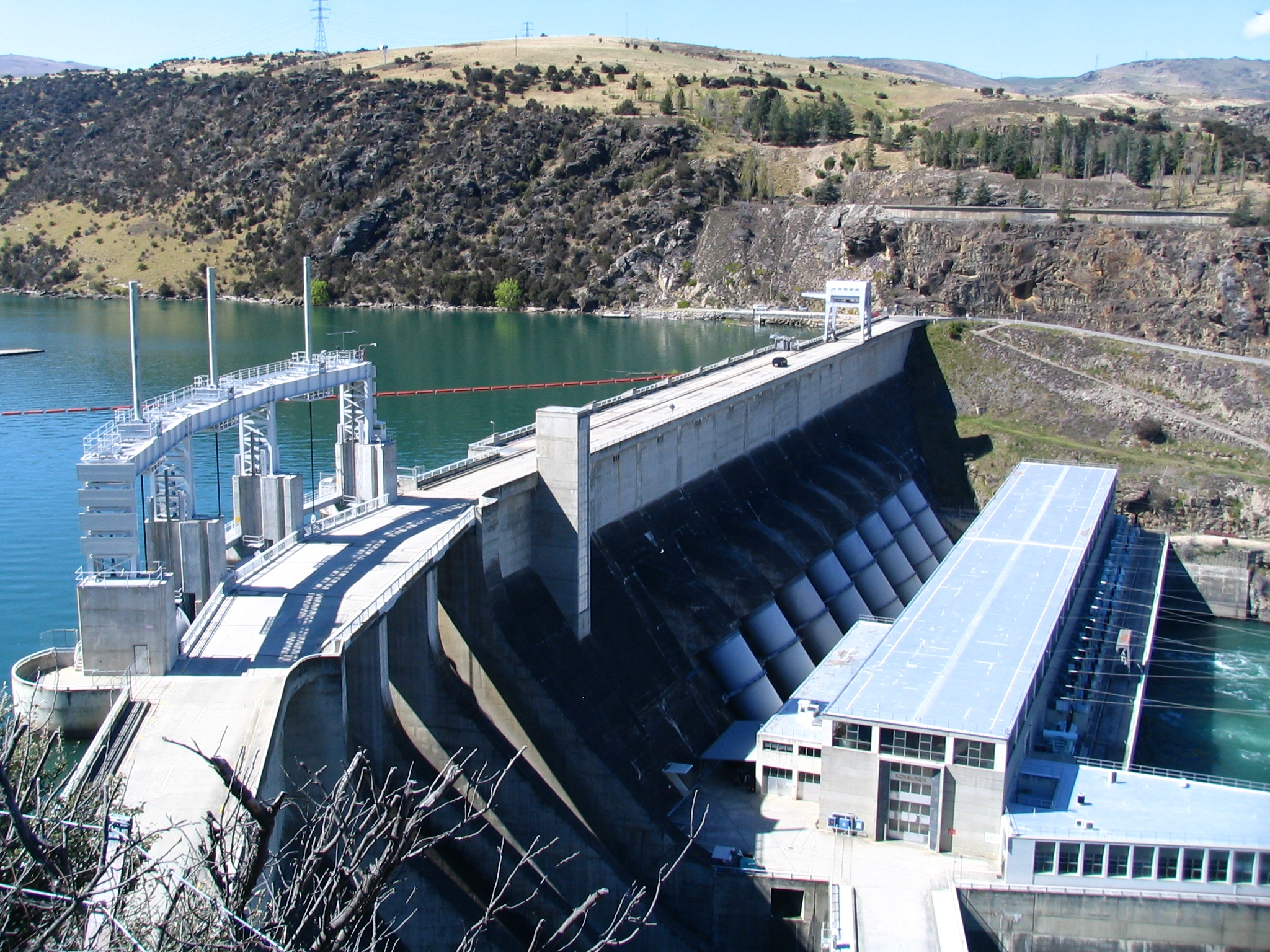 Roxburgh Dam in New Zealand